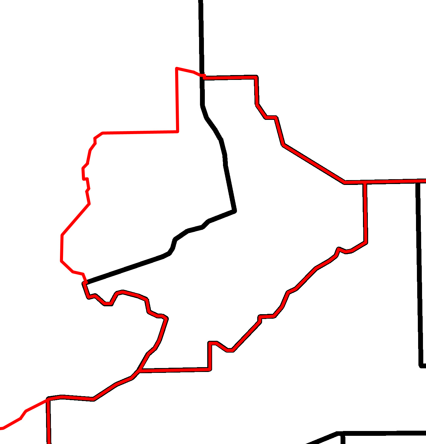 A map of Alberta provincial electoral districts, effective 2010, in black, overlaid with the boundaries of the City of Edmonton, Parkland County, City of St. Albert, and Sturgeon County in red.